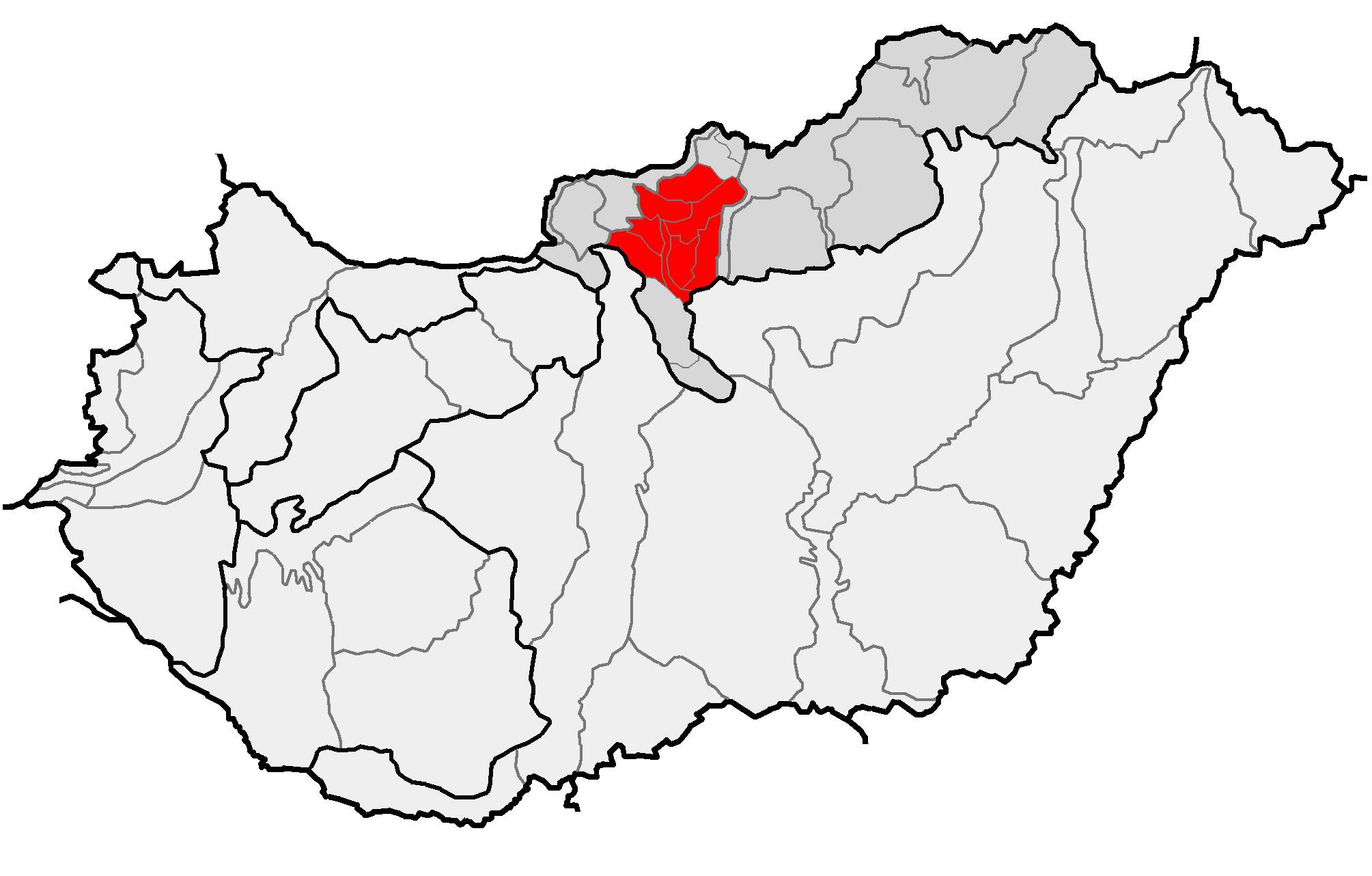 Location of Cserhát (red) and macroregion of Északi-középhegység (gray) within physical subdivisions of Hungary.